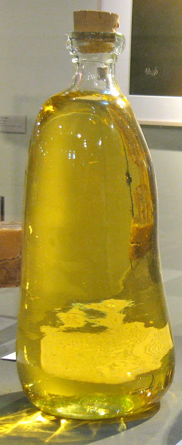 A jug of sperm oil on display in the Whaling Museum in Nantucket.